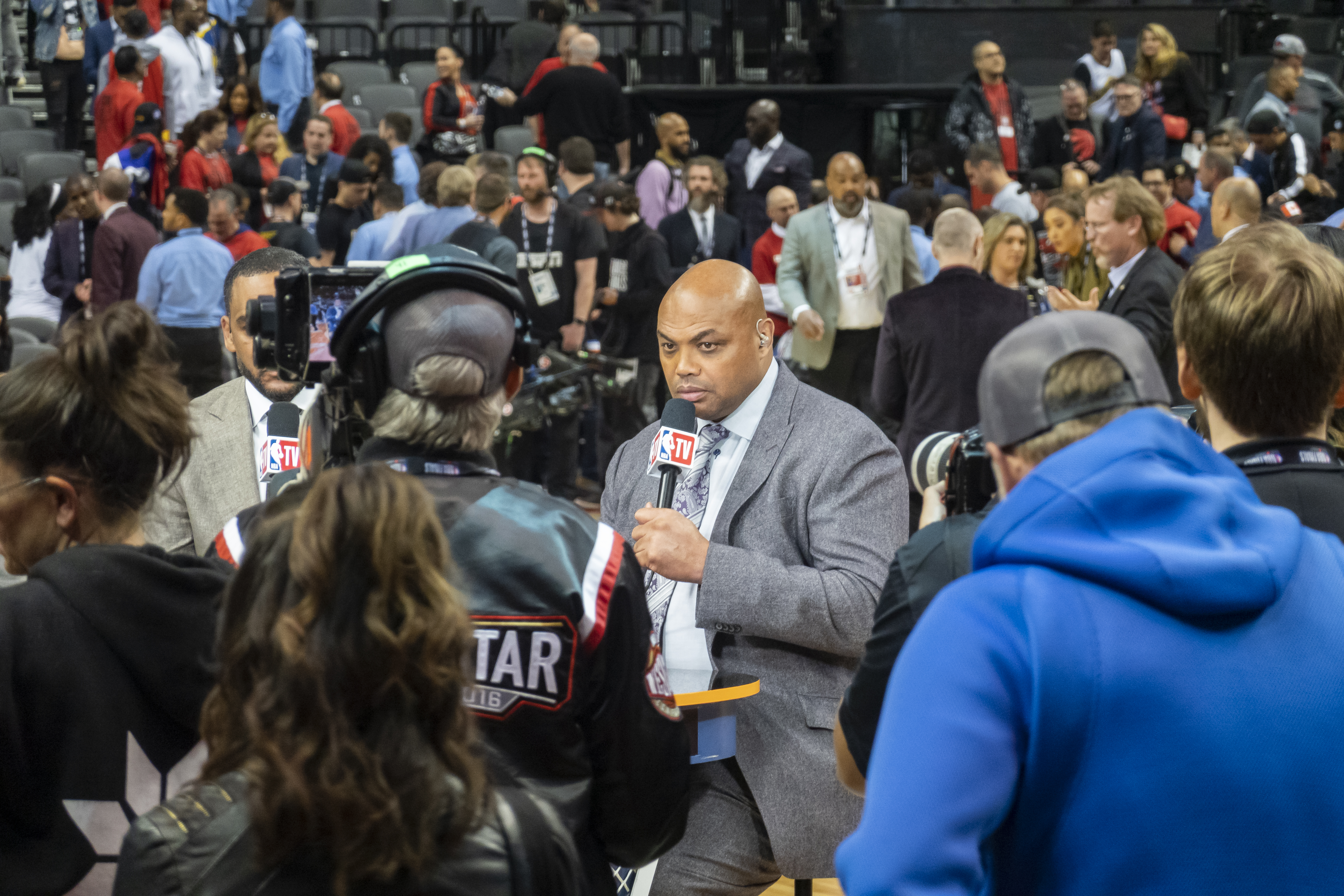 Charles Barkley at 2019 NBA Finals